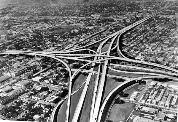 Looking northwest, this shows the intersection of interstates 95 and 395. Included in the image is SR 836. Accompanying note: "One of the largest interchanges in Florida, the Midtown Interchange at Miami, is shown here by superimposing the architects model on an aerial photograph of the city. It will be built between N.W. 11th Terrace and 22nd Street and will connect the city's North-South and East-West expressways."